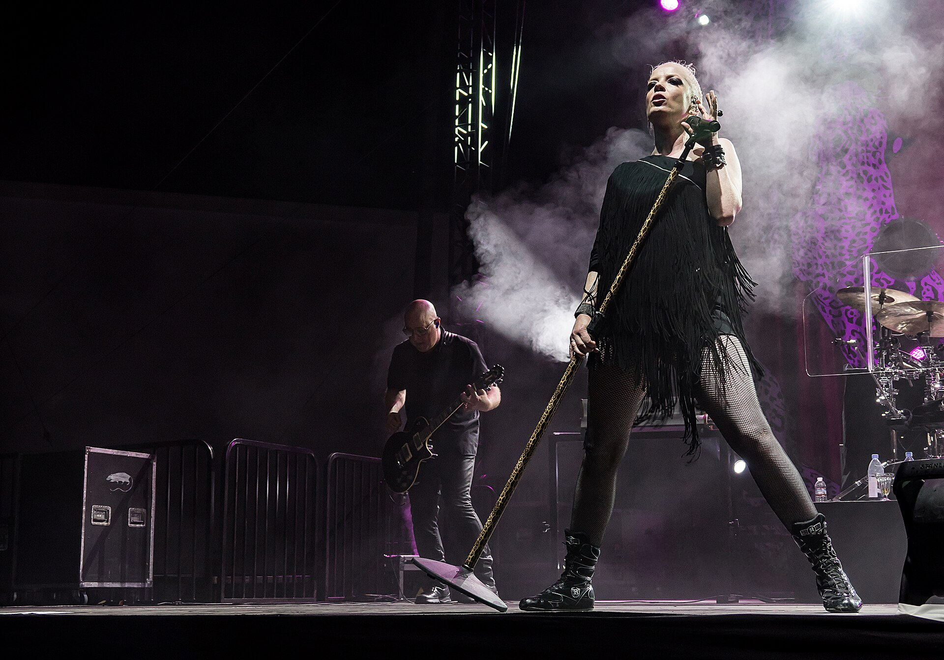 Garbage performing live on the Fairbanks Lawn at Hollywood Forever Cemetery in Los Angeles California on Friday October 21st 2016. This was the band's penultimate stop on their U.S. leg of the Strange Little Birds tour.